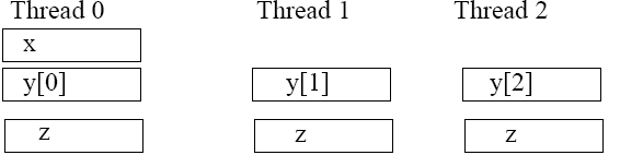 Рис. 2. Результат